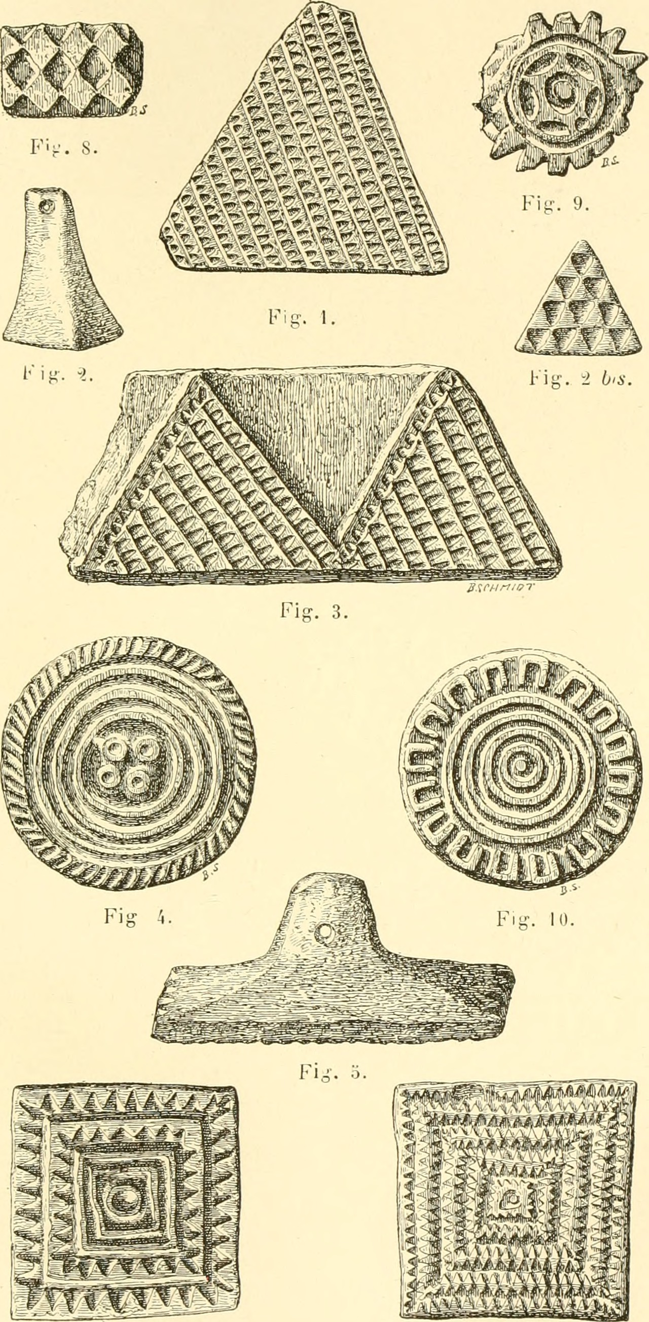 Title: Anales de la Sociedad Española de Historia Natural Year: 1883 (1880s) Authors: Sociedad Española de Historia Natural Subjects: Natural history; Natural history -- Spain Publisher: Madrid : La Sociedad Text Appearing Before Image: Anales de la Soc. espahola de Hist. nat. Tomo XIf, Ldi/i. VIll. Text Appearing After Image: Fig. (i. VvA. 7. PINTADERAS DE LA GRAN CANARIA (de 1 a 7) PINTADERAS DE MEJICO (8, 9, 10).